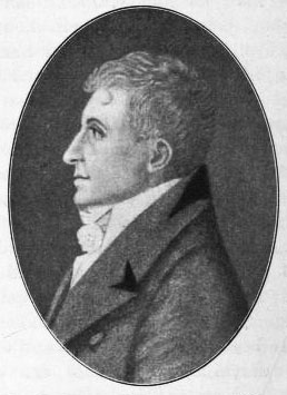 Kristofer Karsten, Swedish opera tenor